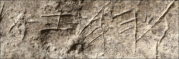 Inscription on a stone in the wall of an ancient building from Tel Zayit (south of Jerusalem). It means first letters of Phoenician-Hebrew alphabet: (right-to-left) waw, he, het, zayin, tet. Earliest known specimen of the Hebrew alphabet dated to X B.C.